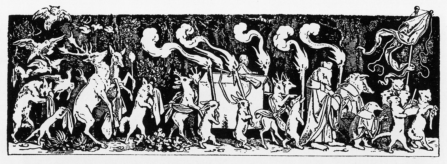 Moritz von Schwind: "Wie die Thiere den Jäger begraben". Wood engraving after a drawing by Moritz v. Schwind, from Münchener Bilderbogen No. 44 "Die guten Freunde" (Munich, 1850). This image was possibly the picture that provided inspiration for the ironic funeral march that forms the third movement of Gustav Mahler's First Symphony (composed c. 1884-1888; revised 1893-1910).